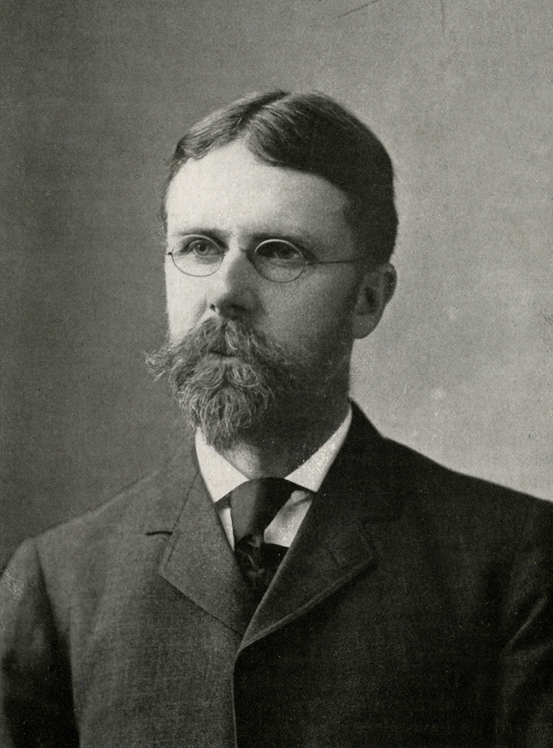 The American mycologist Roland Thaxter. Lloyd notes "Professor Thaxter is now in his fifty-ninth year, quiet and reserved. It is always a pleasure to meet him. On our rare visits to Harvard we have always enjoyed a visit with him. The photograph that we present today was taken four or five years ago, but is an excellent likeness of him today." p. 622.